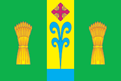 Flag of Novoumanskoe rural settlement, Krasnodar Territory, Russia